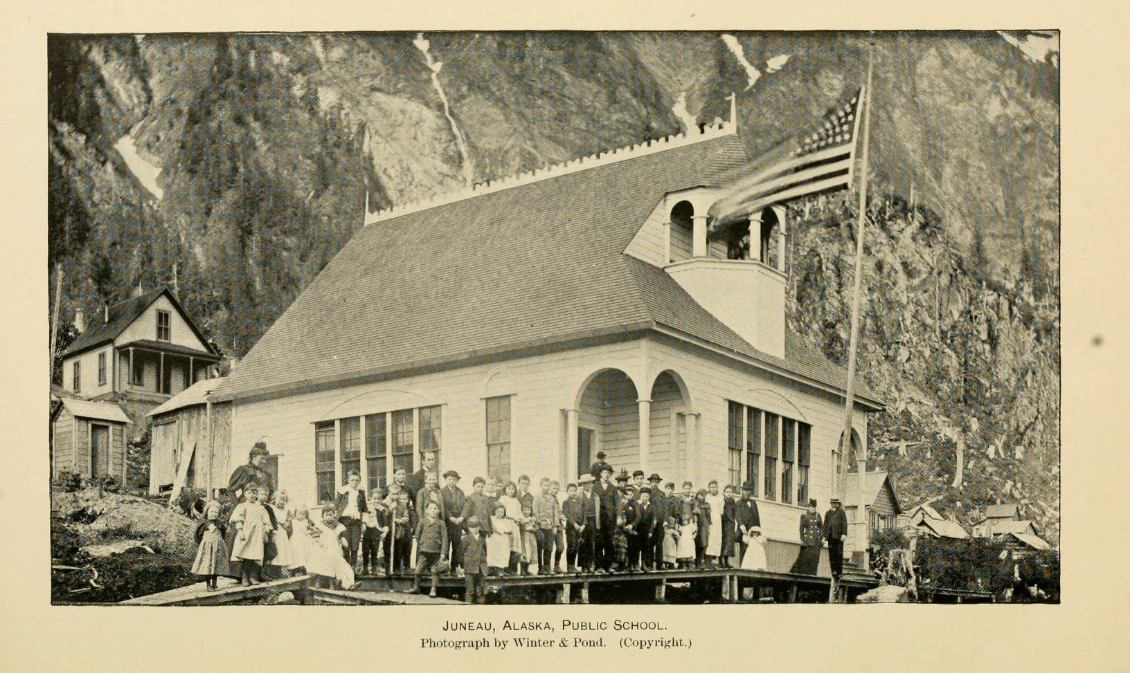 Public School. Juneau, Alaska, undated photograph 1890 or earlier, Winter & Pond